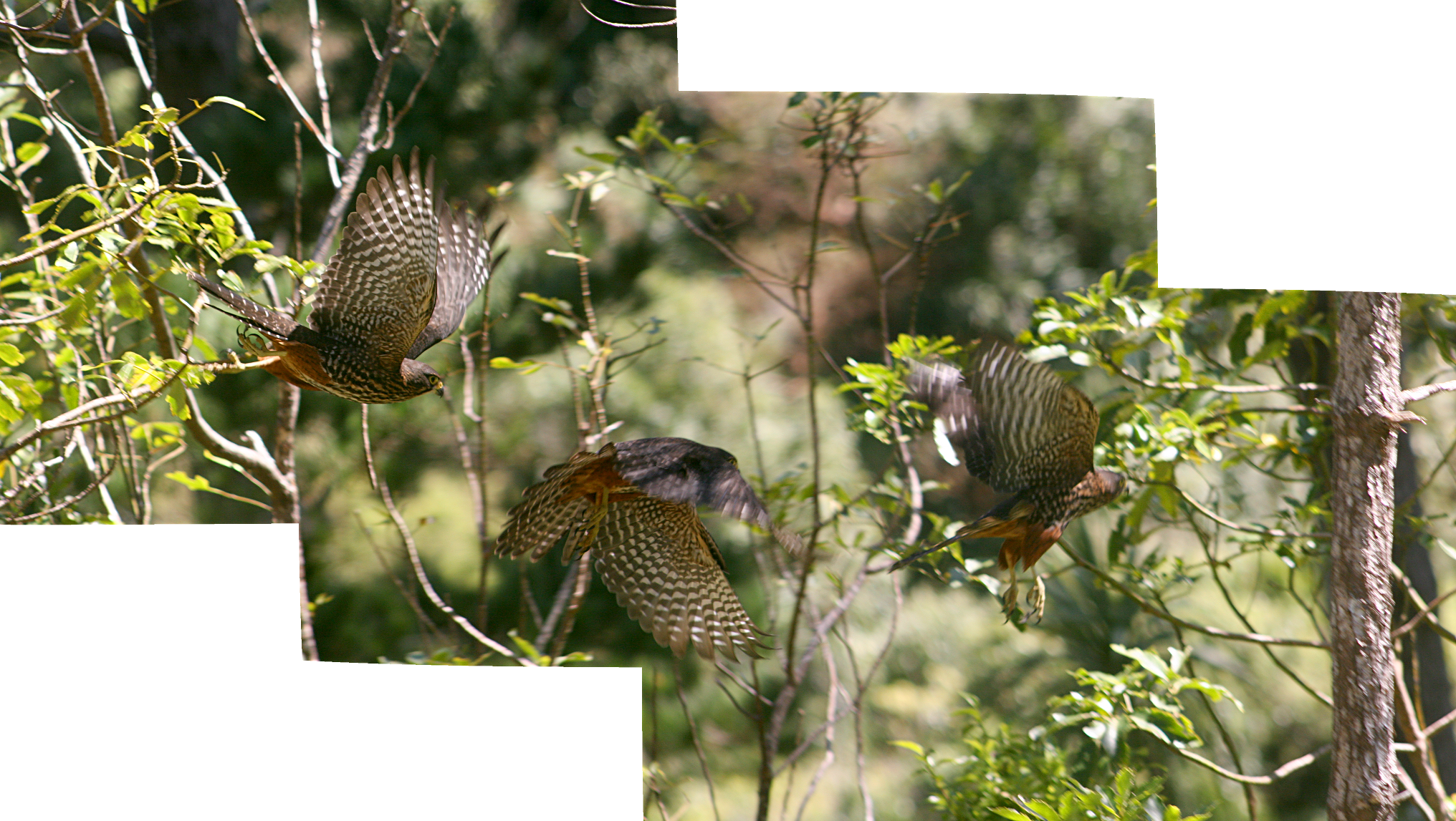 The New Zealand Falcon in flight, composite image using Hugin, of three frames. Zealandia wildlife sanctuary. Wellington, New Zealand. The Canon 20D max frame rate is about 5 fps so these images a spaced approximately 0.2 seconds apart. Full size version is available in file history. This PNG version deliberately created to allow for transparent background around frames. Māori: Kārearea